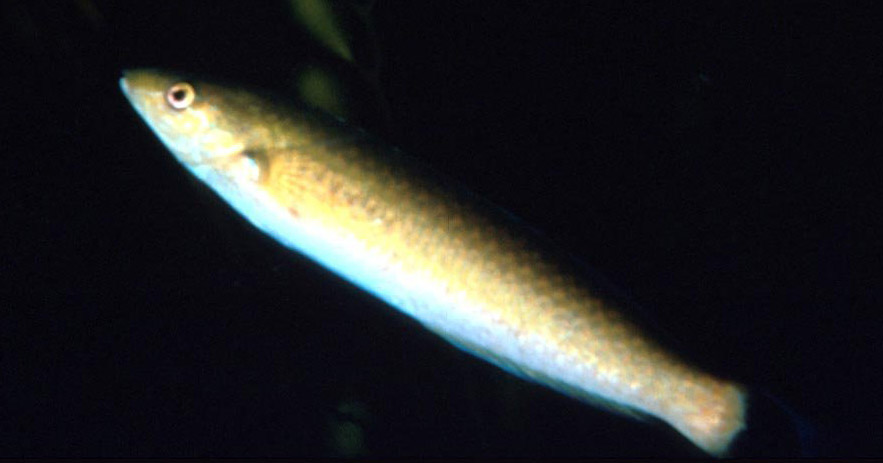 This fish, the Senorita fish (Oxyjulius californica) gets it's food in an odd way: it preys upon the parasites that attach themselves to fish. This arrangement not only benefits the senorita fish, which receives a meal, but also the other fish which rids itself of undesirable parasites.